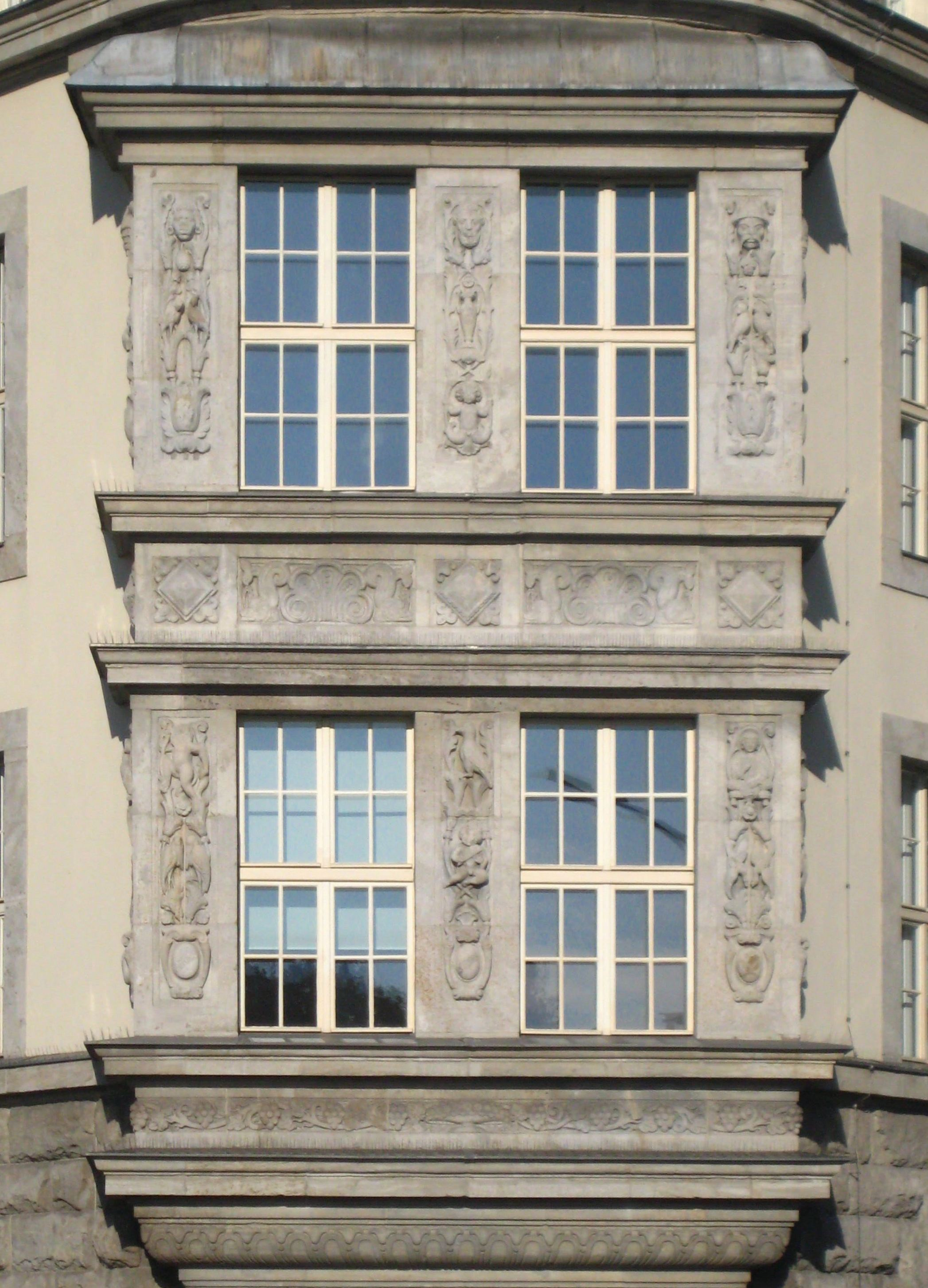 Bay at GTZ-Haus at Reichpietschufer No. 20 in Berlin-Tiergarten, decorated with reliefs. Ornaments include the heads of a Chinese, an American, and an African. This a reference to the business activities of the original building ower, the Transatlantische Güterversicherungsgesellschaft, which was engaged in overseas trade.